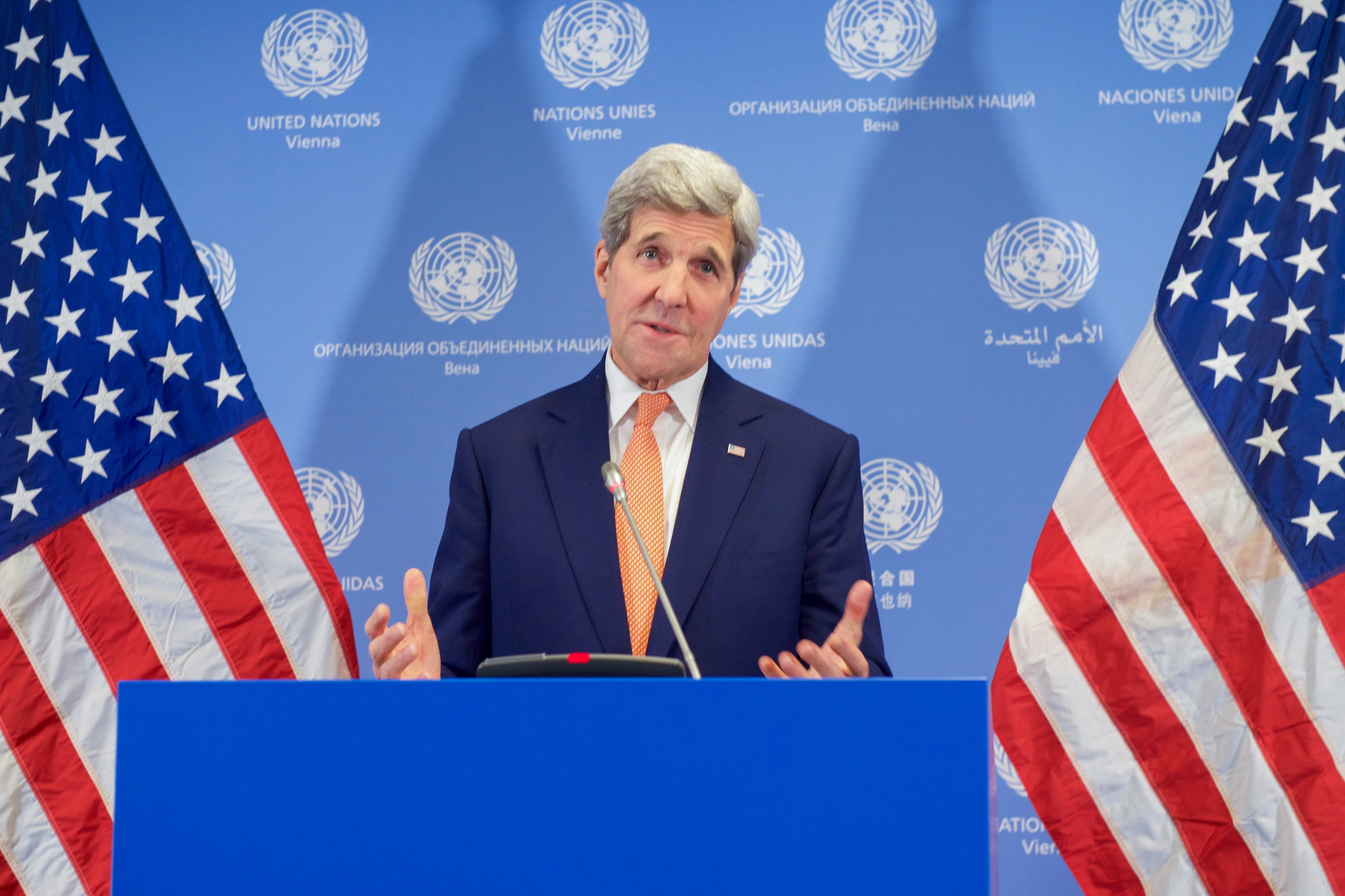 U.S. Secretary of State John Kerry addresses reporters gathered at the Vienna International Center in Vienna, Austria, on January 16, 2016, after the implementation of the Joint Comprehensive Plan of Action outlining the shape of that country's nuclear program. [State Department Photo/Public Domain]